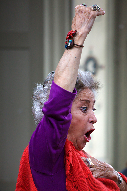 The Spanish opera singer Teresa Berganza giving a master class in Bougival (France) in May 2009.